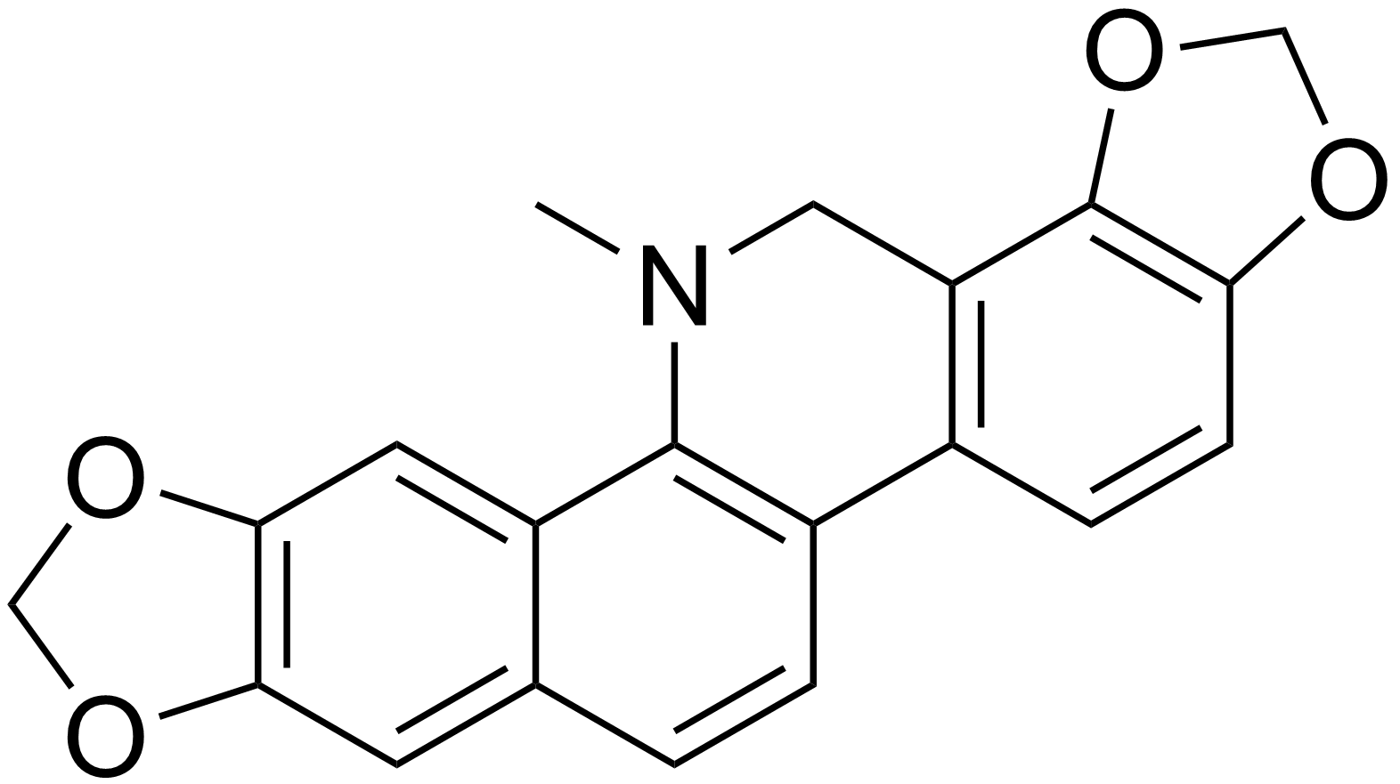 Chemical structure of dihydrosanguinarine